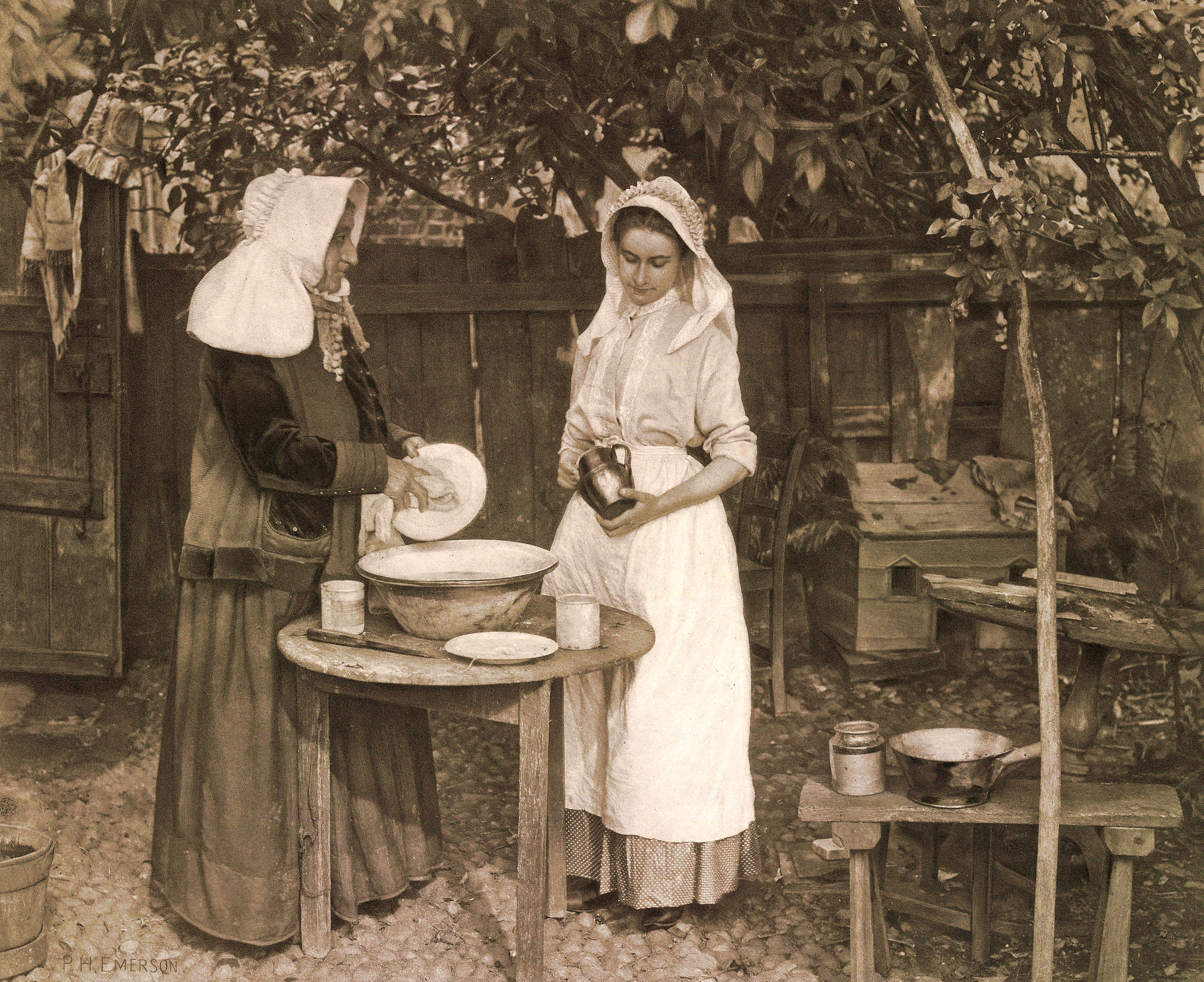 In the 1887 book ‘Pictures From Life In Field And Fen,’ photographer Peter Henry Emerson observes and records scenes of country life in East Anglia, England. ‘Confessions,’ depicts an old woman and a young girl cleaning dishes in a fisherman’s cobbled yard.